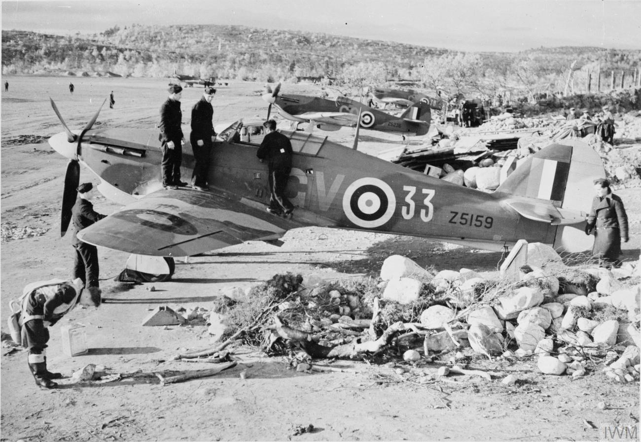 Royal Air Force Hawker Hurricane Mark IIBs of No. 134 Squadron RAF (Z5159 'GV-33' nearest) in their dispersals at Murmansk-Vaenga airfield (about 10 km (6.2 mi) north-east from Murmansk, Russia.